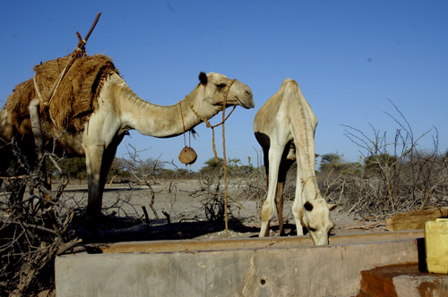 Camels water in Marsabit town that was hit with famine last year.